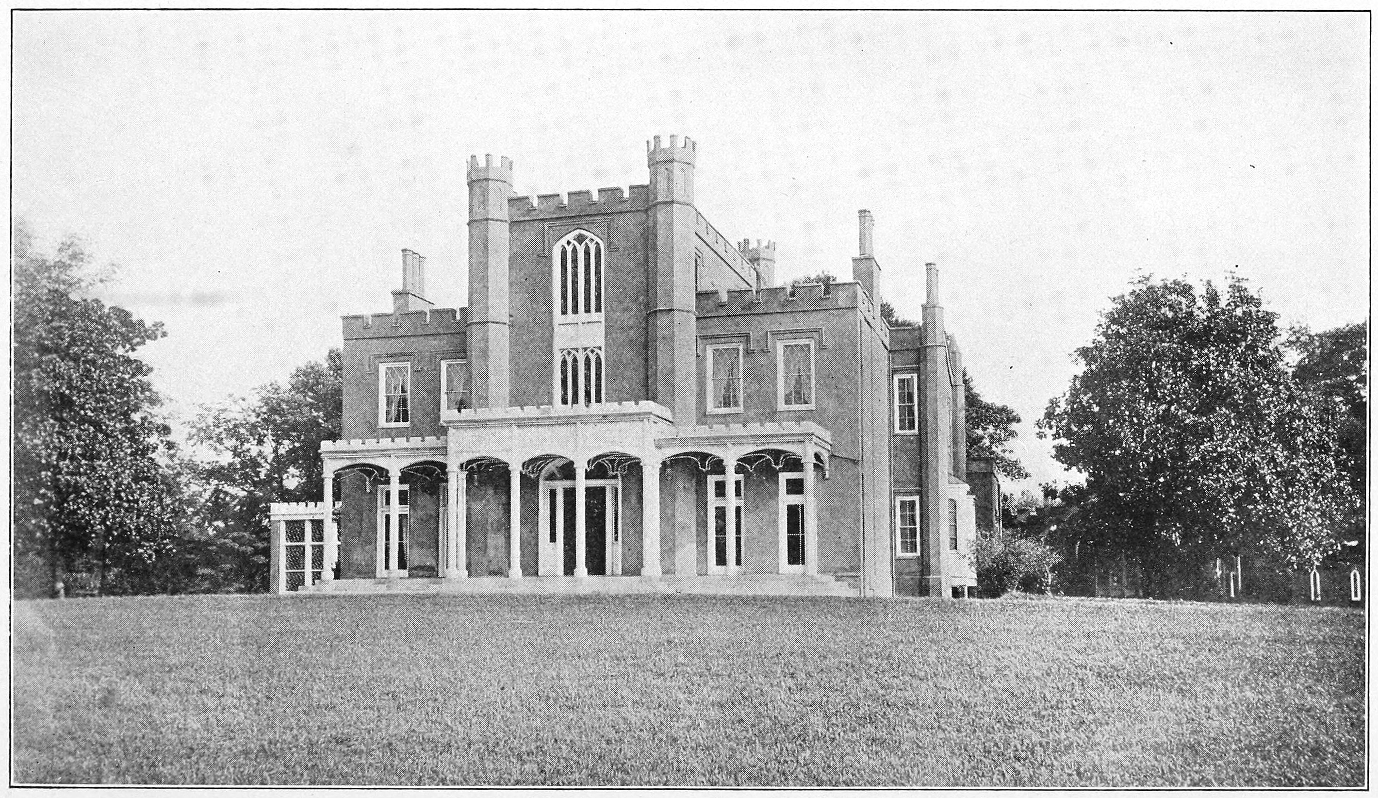 Photo of Staunton Hill in Charlotte County, Virginia. From A Handbook of Virginia (1910) by the Department of Agriculture and Immigration of the State of Virginia. digital copy available at the Internet Archive(cropped, rotated and color levels)